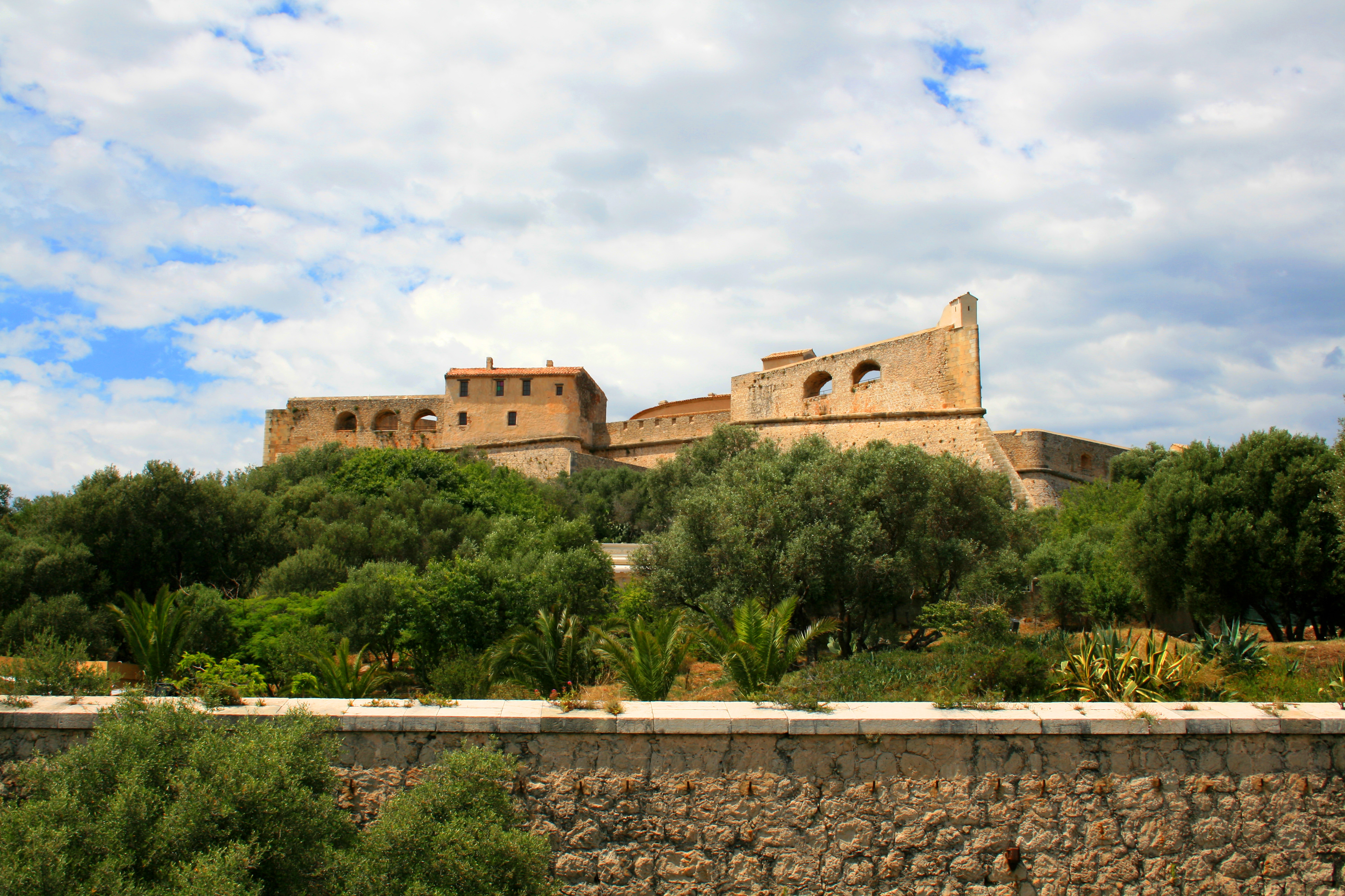 Fort Carré in Antibes, seen from the south. France